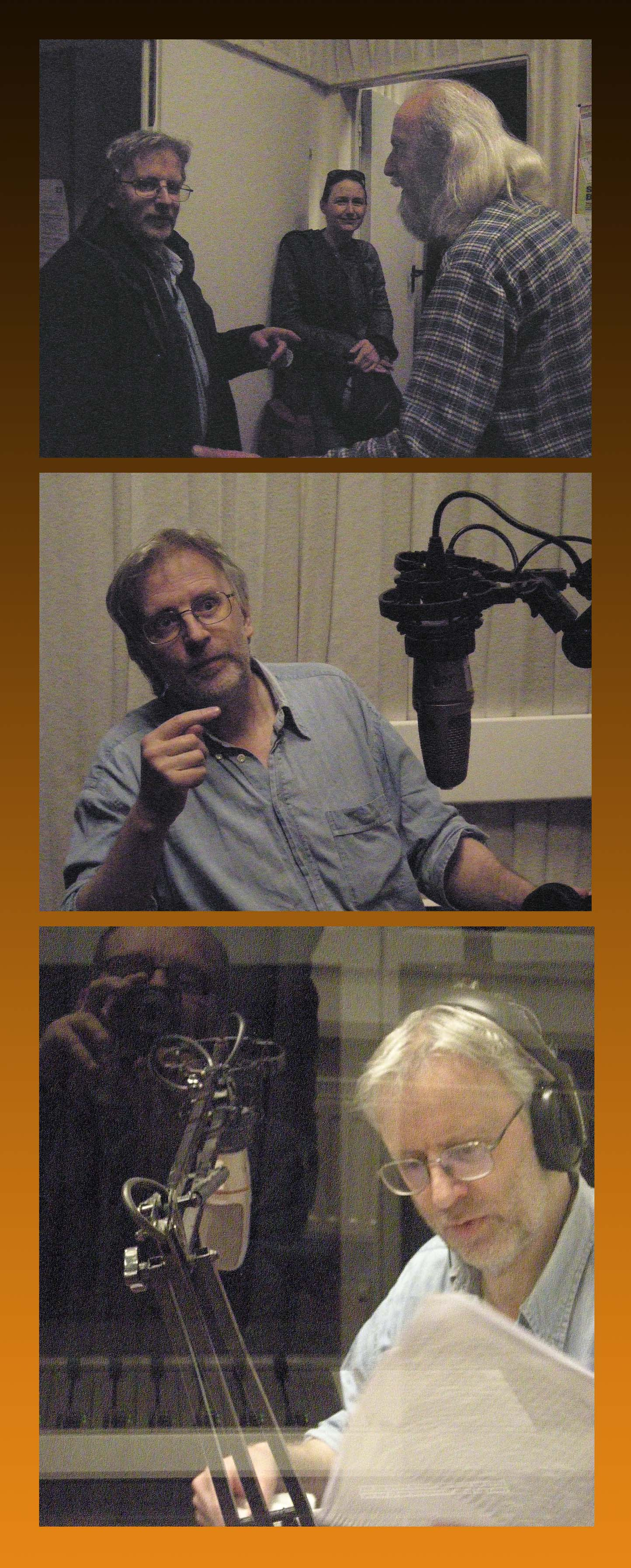 Austrian poet Helmut Seethaler triptych. The upper frame shows him when meeting journalists Andrea Figl and Herbert Loitsch, on occasion of an interview for Orange Radio (Vienna) / "trotz allem". Note: Camera 'time stamp' is set to UTC, which is CEST-2.